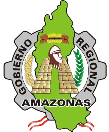 Amazonas Region seal (Peru)